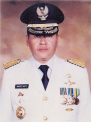 Portrait of Mardiyanto as Governor of Central Java